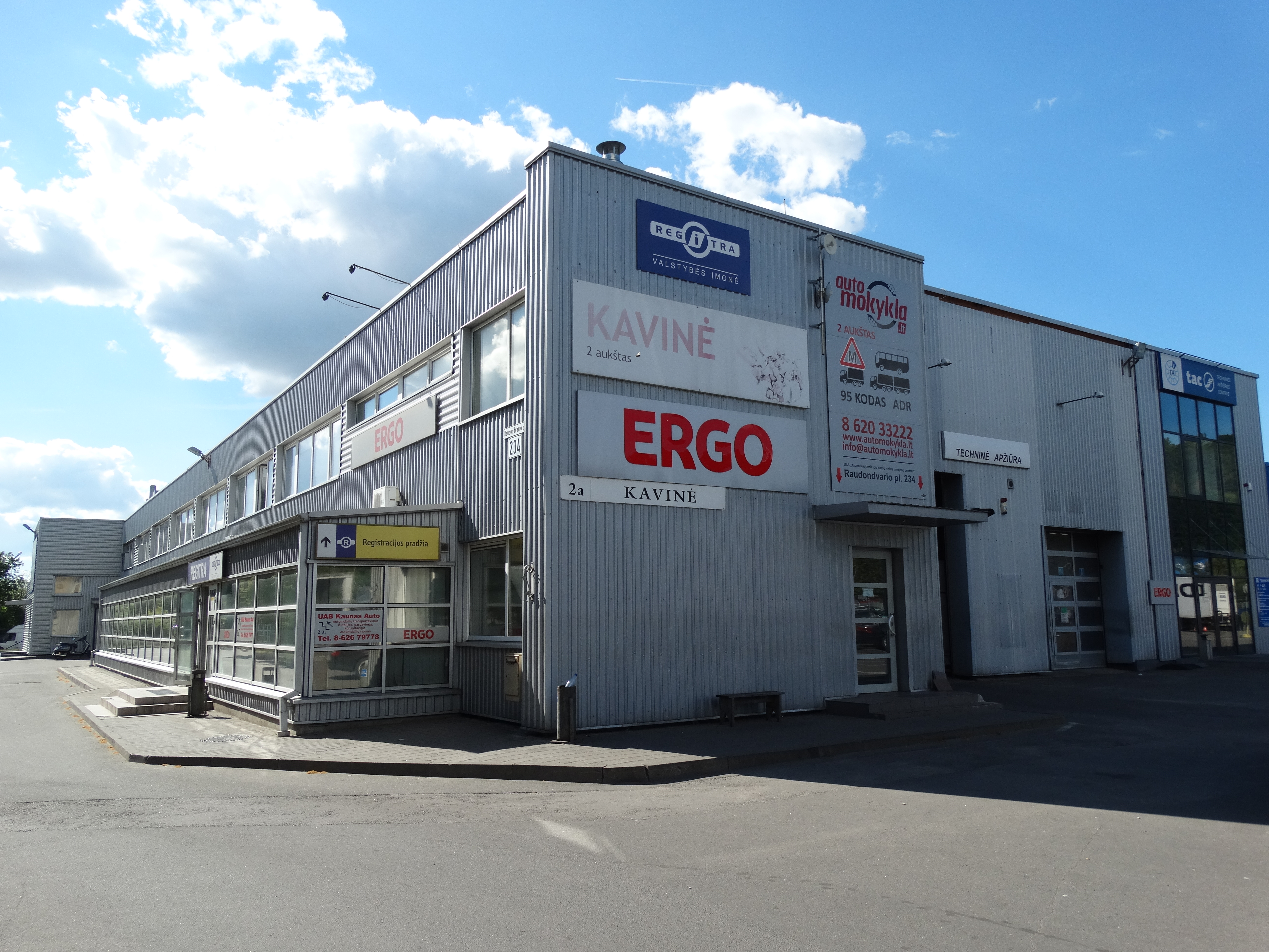 Regitra, Kaunas, Lithuania